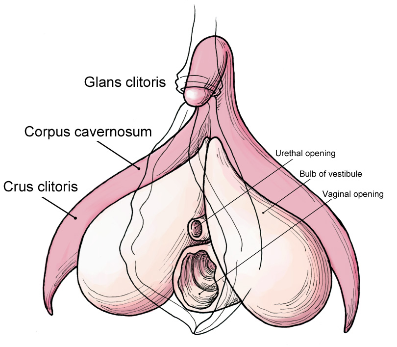 A picture showing the internal anatomy of the vulva, focusing on the anatomy and location of the clitoris. Updated drawing of the older image Clitoris_inner_anatomy.png. This version has English labels.